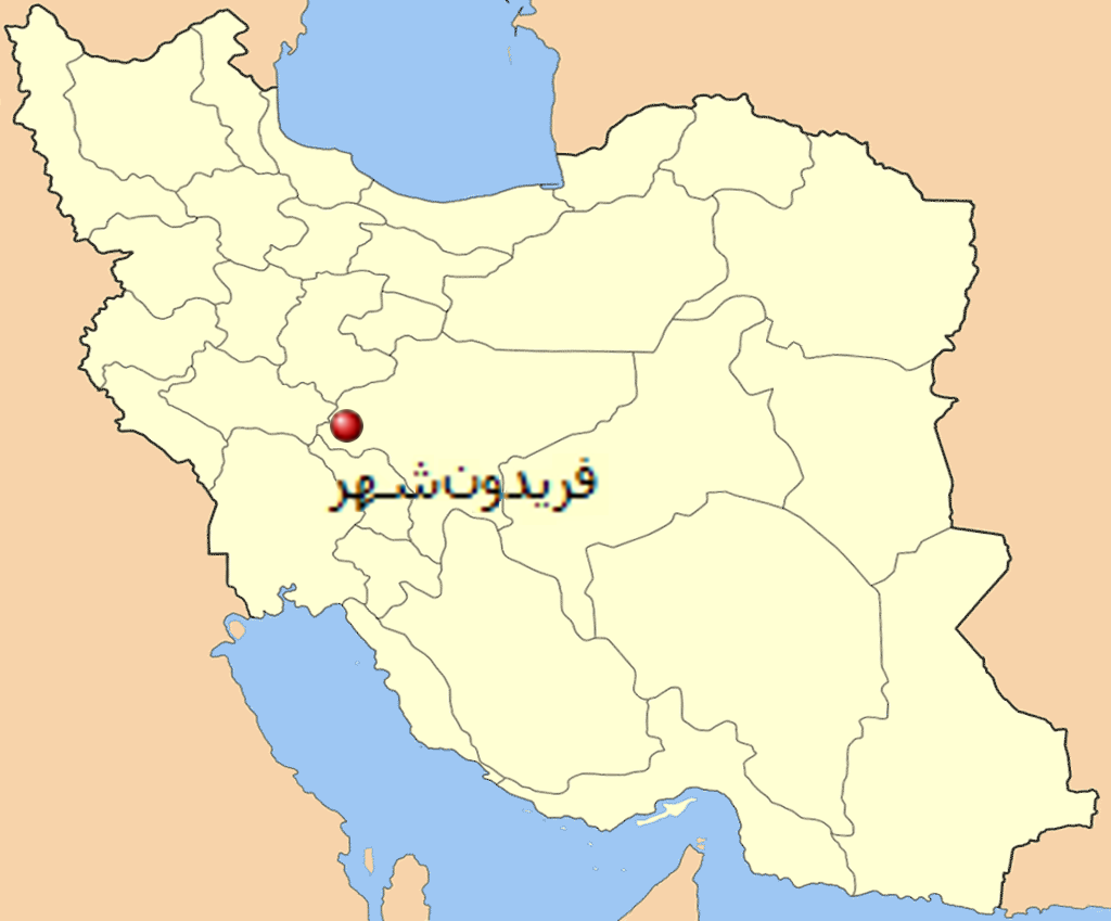 Locator map of Iran for فريدون شهر